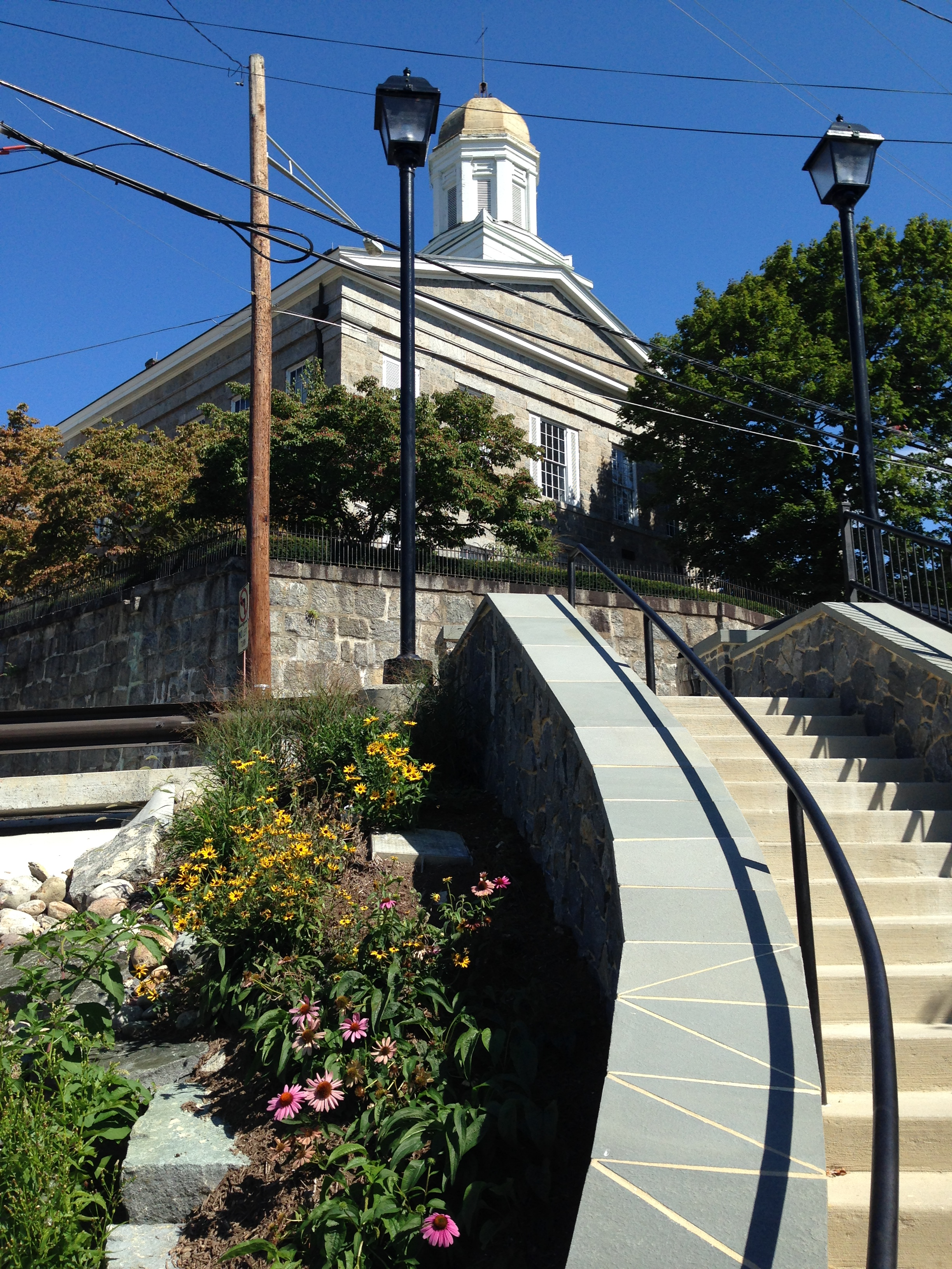 Looking north at the Howard County Courthouse from the stairwell from Main Street in Ellicott City, MD.